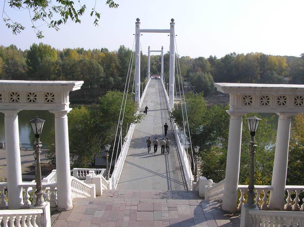 Old bridge over the Ural River — in Orenburg, Russia.Ural's brige